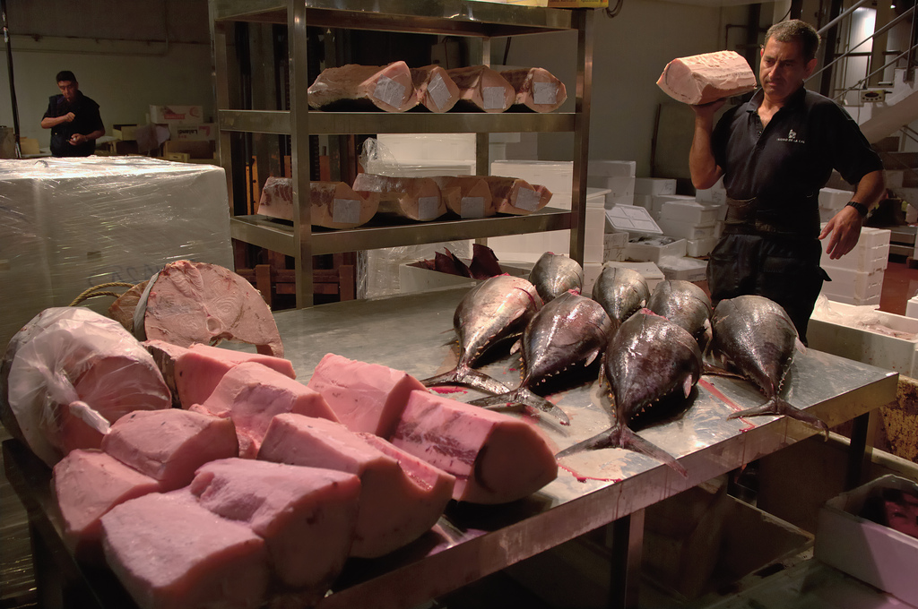 Mercamadrid This photograph can be used for publications, including this copyright statement: “©PromoMadrid, author Max Alexander”. Esta fotografía puede usarse en publicaciones, incluyendo la declaración “©PromoMadrid, autor Max Alexander”.